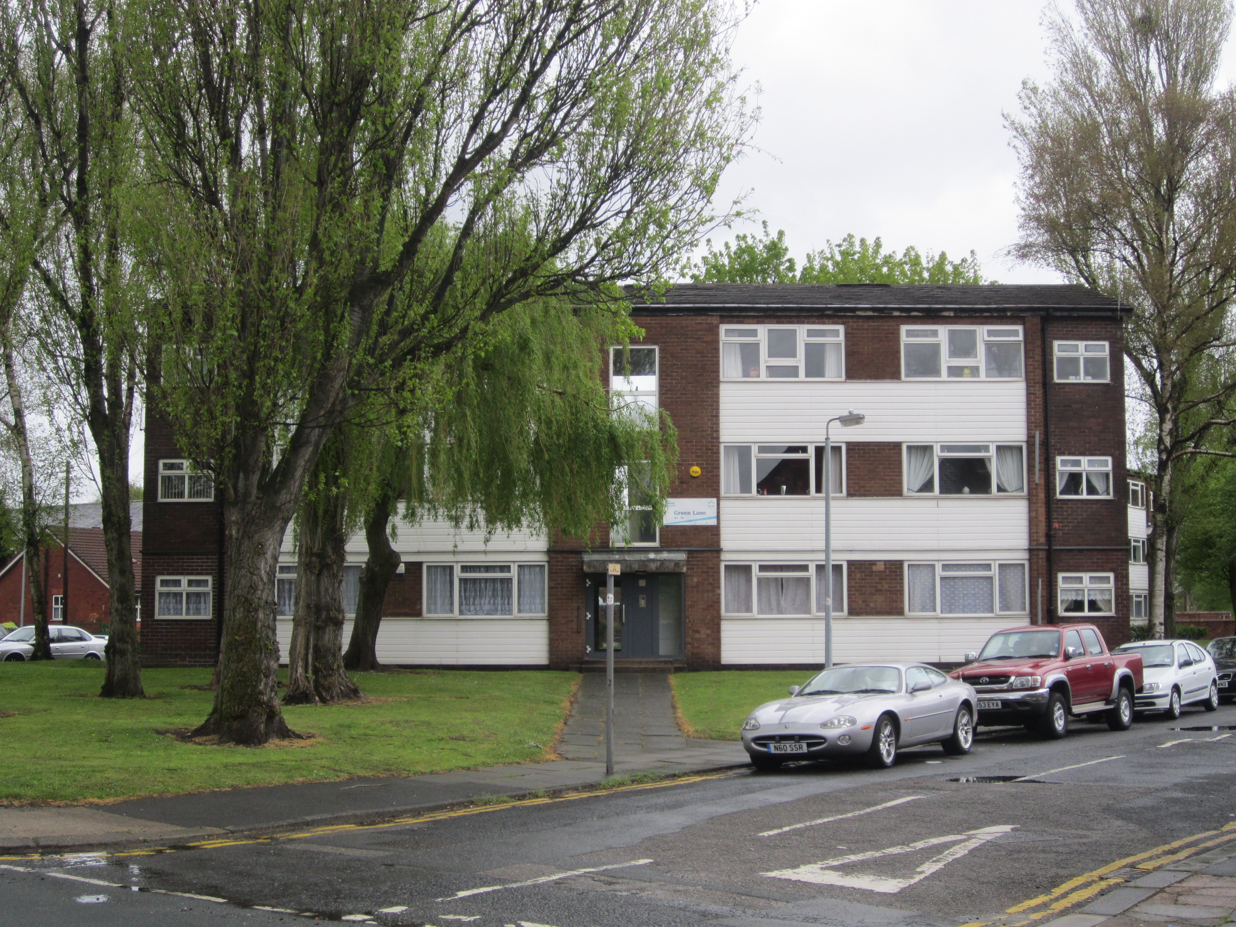 Apartment block at 40-50 Green Lane, Eccles, Greater Manchester, England.